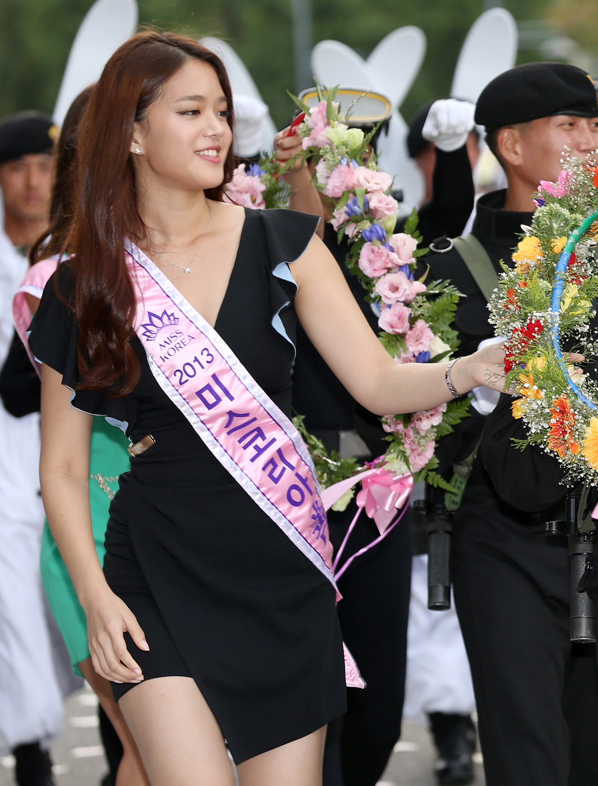 The 65th Anniversary of the Armed Forces Day Armed Forces’ parade on the main street in Seoul 2013.10.01. Seoul, Republic of Korea Ministry of Culture, Sports and Tourism Korean Culture and Information Service JEON HAN 건군 제65주년 국군의 날 건군 제65주년 국군의 날을 맞아 1일 서울 도심에서 시가행진이 열렸다. 서울 문화체육관광부 해외문화홍보원 코리아넷 전한